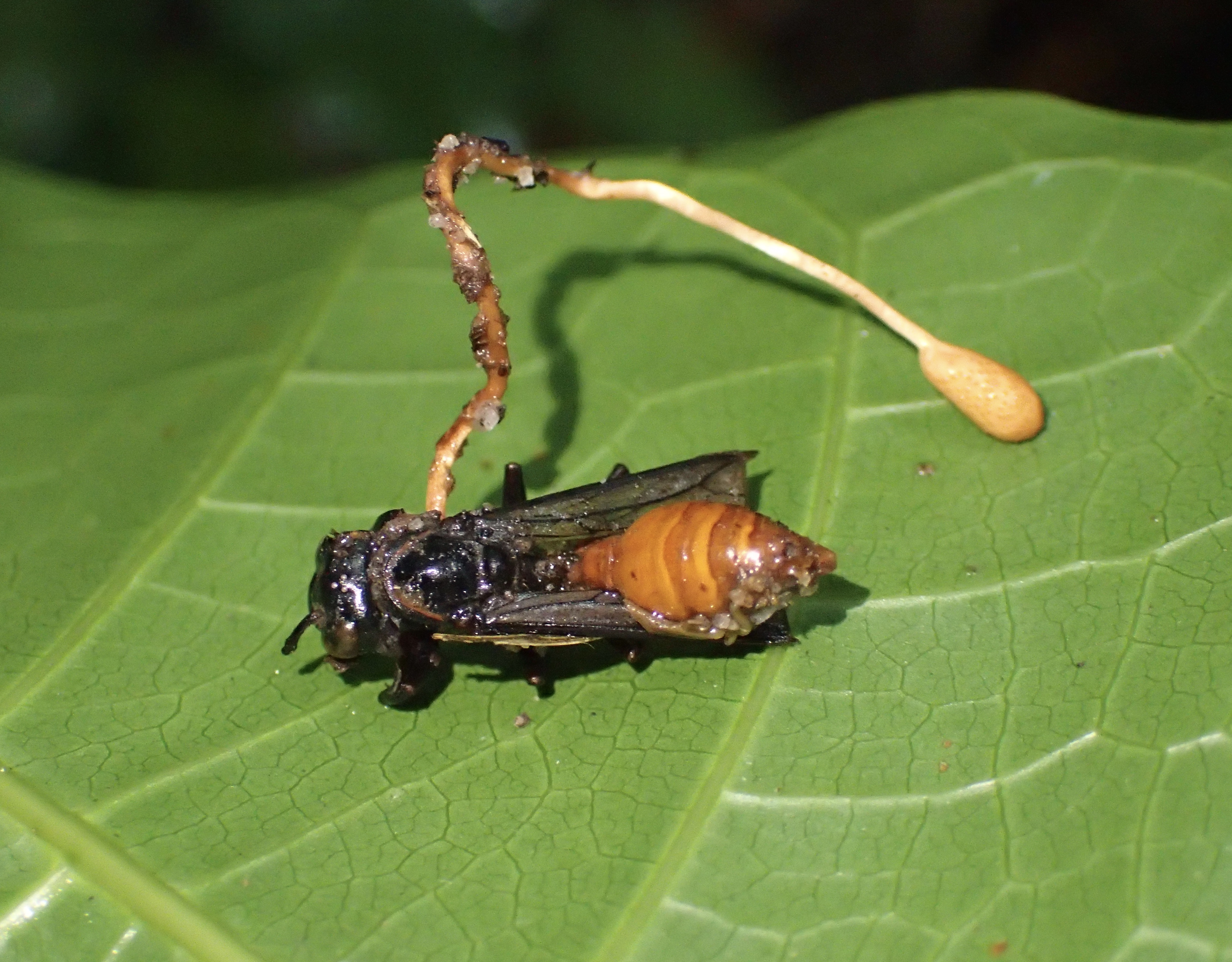 Ophiocordyceps sphecocephala fungus growing on a dead wasp